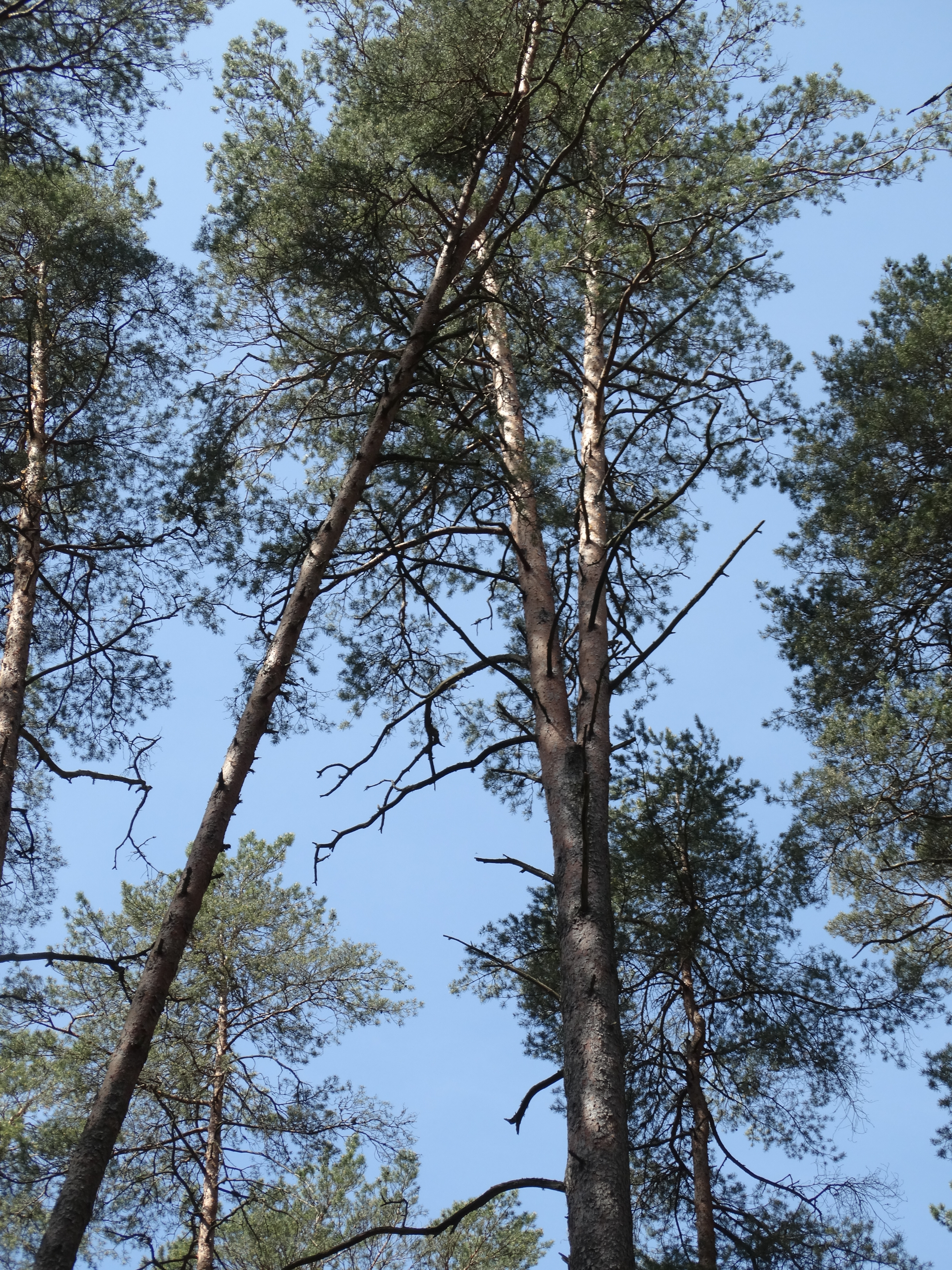 Highest pine tree, Labanoras forest, Švenčionys District, Lithuania